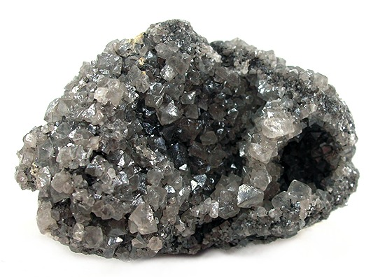 Senarmontite Locality: Djebel Haminate Mine, Ain Beida, Constantine Province, Algeria (Locality at ) Size: miniature, 4.8 x 3.4 x 2.2 cm Senarmontite A large plate of sharp crystals to 4mm, from this type locality for the species. I believe they were found during expeditionary work by French geologists, and much of this was brought back and put into French museums and dealerships at the time. Large specimens are very rare - usually i see only thumbnail loose crystals on the market.